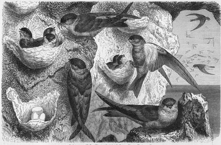 Glossy Swiftlet (Collocalia esculenta) Book 14 of the 4th edition of Meyers Konversationslexikon (1885–90)